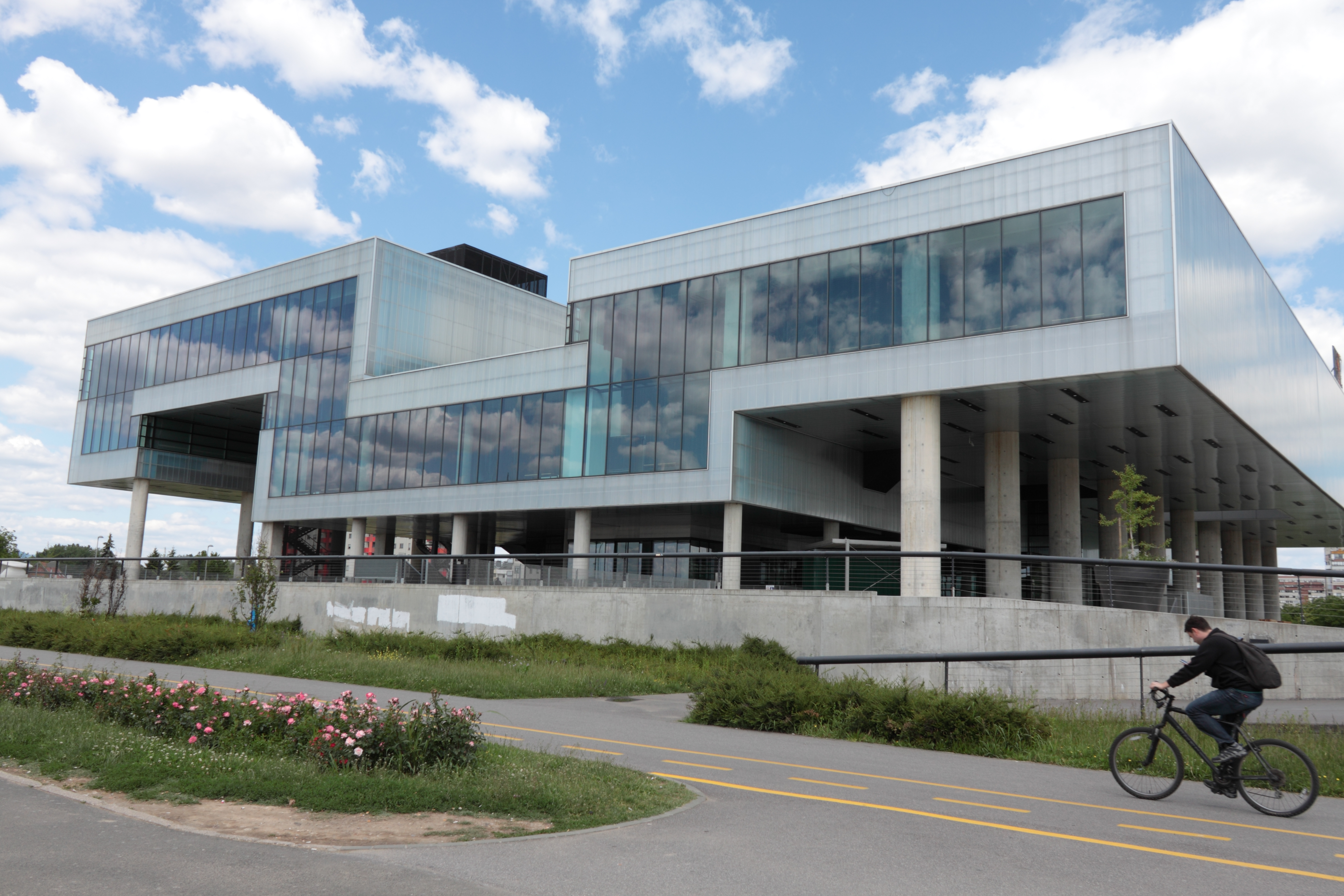 Museum of Contemporary Art in Zagreb, Croatia. Architect: Ivan Franić